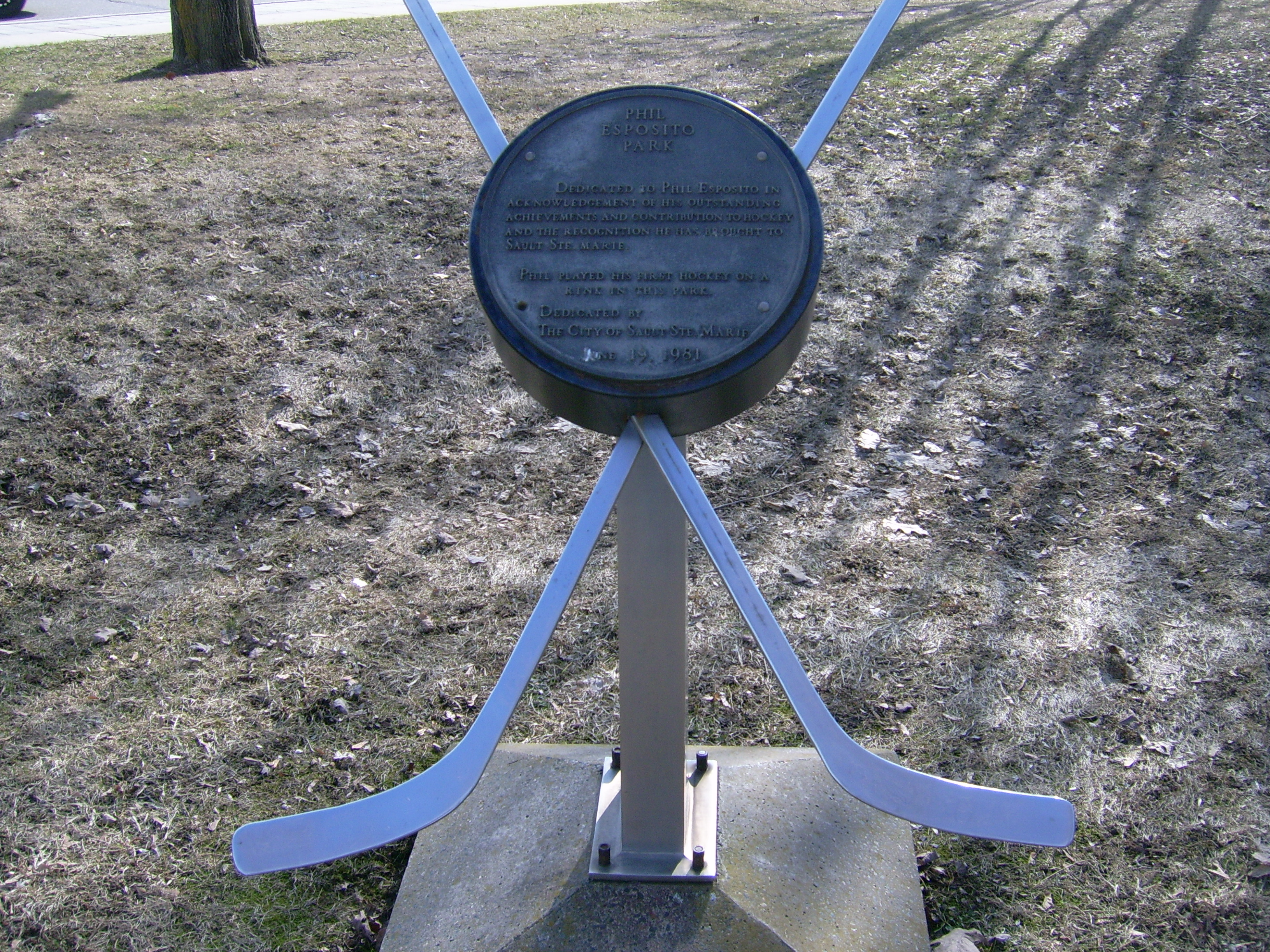 Phil Esposito Park, Sault Ste. Marie, Ontario. Phil Esposito Park Dedicated to Phil Esposito in acknowledgement of his outstanding achievements and contributions to hockey and the recognition he has brought to Sault Ste. Marie. Phil played his first hockey on a rink in this park. Dedicated by The City of Sault Ste. Marie June 19, 1981